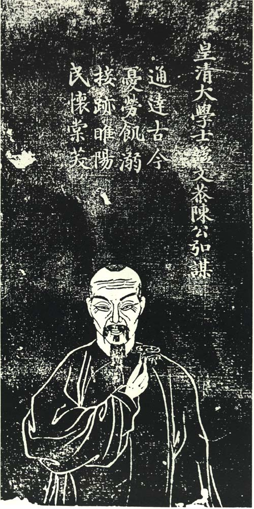 Chen Hongmou, politician of the Qing Dynasty.